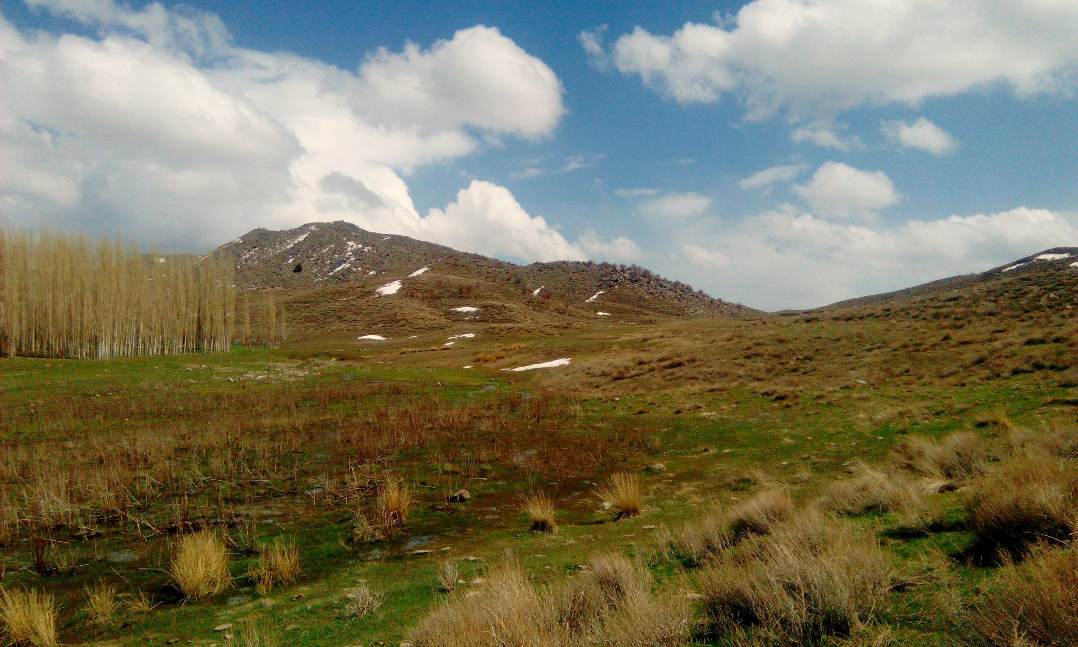 سربیژن